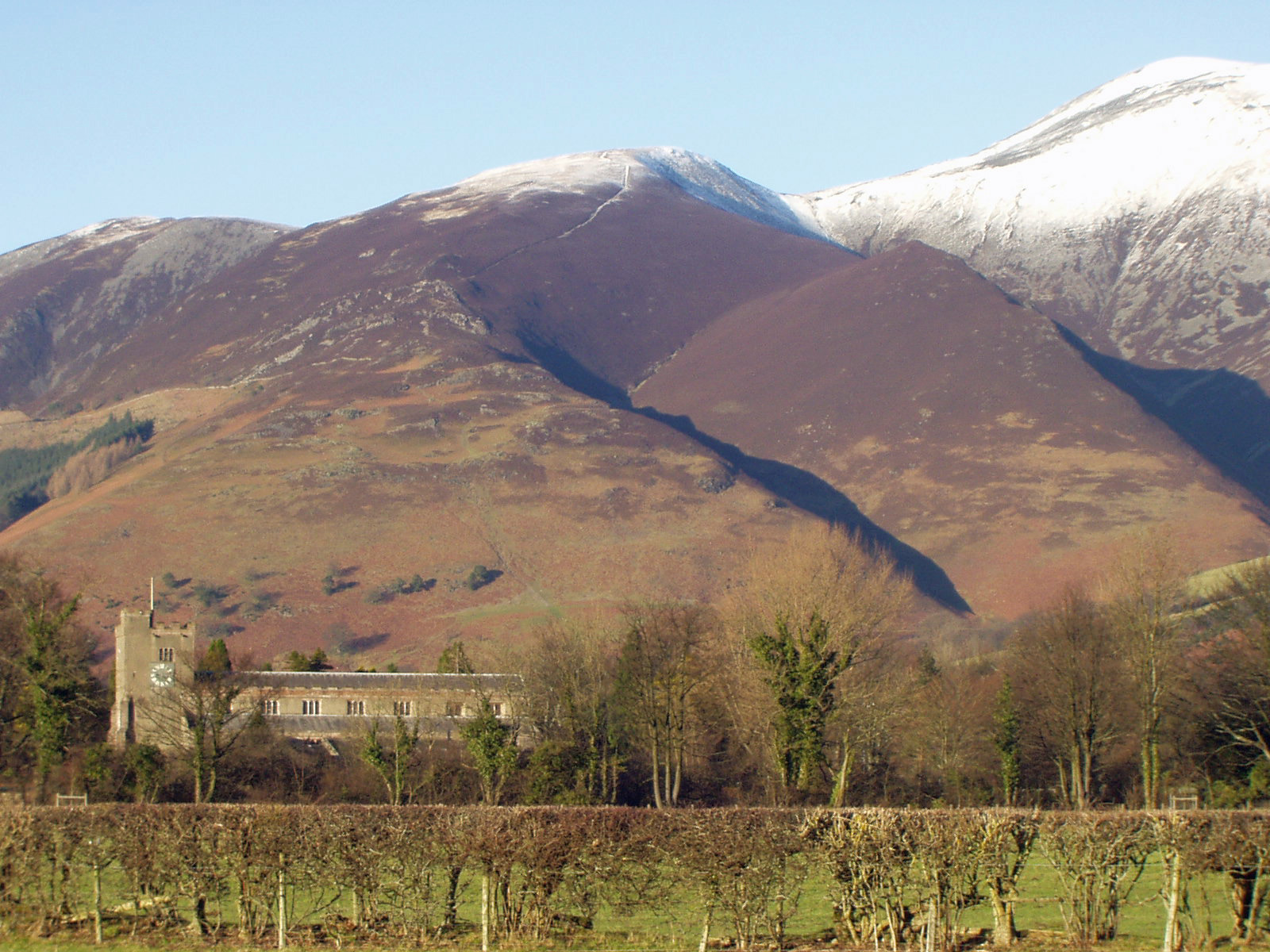 Crosthwaite, Cumbria, showing St Kentigern's Church